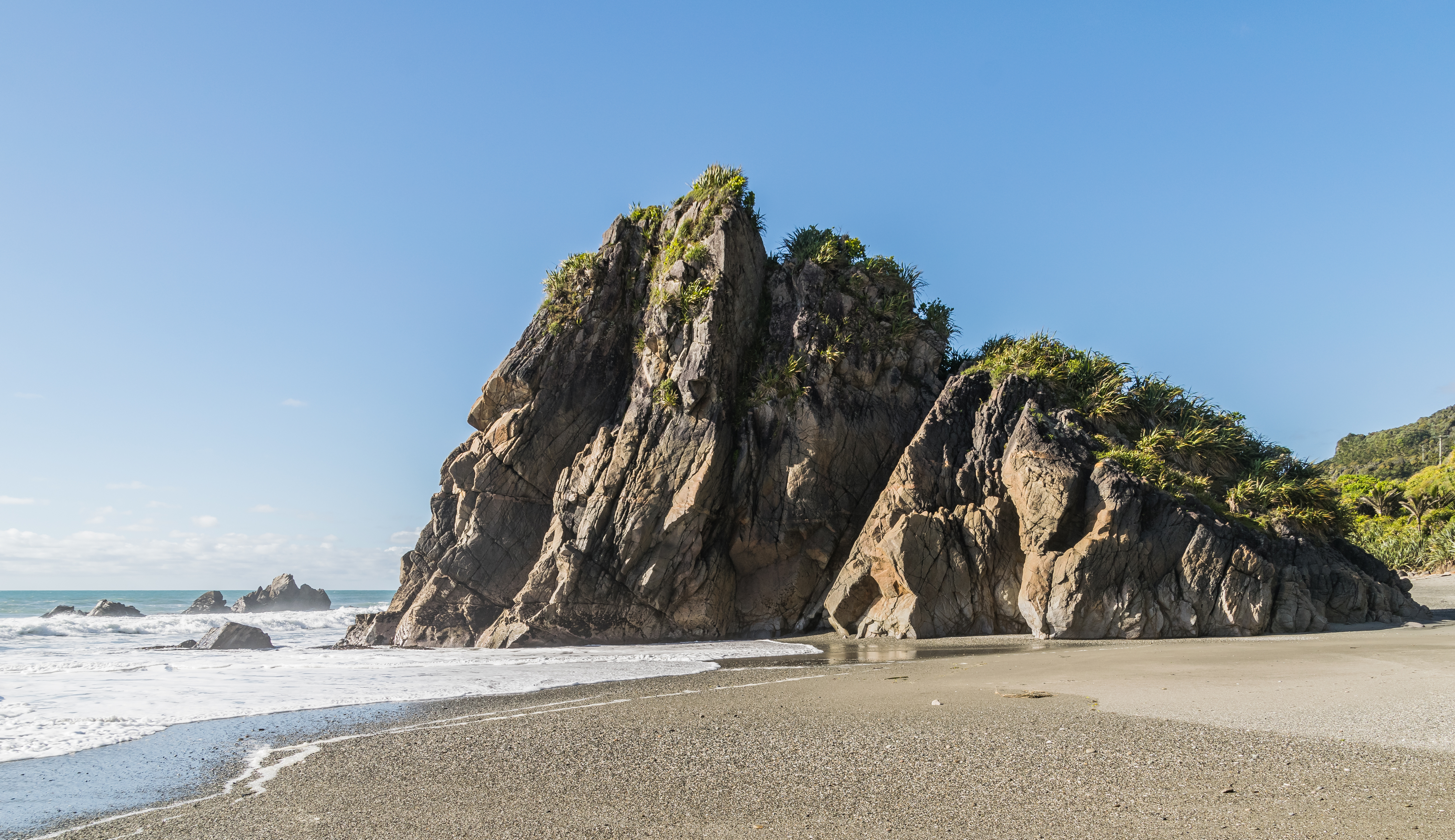 Meybille Bay in West Coast Region, South Island of New Zealand